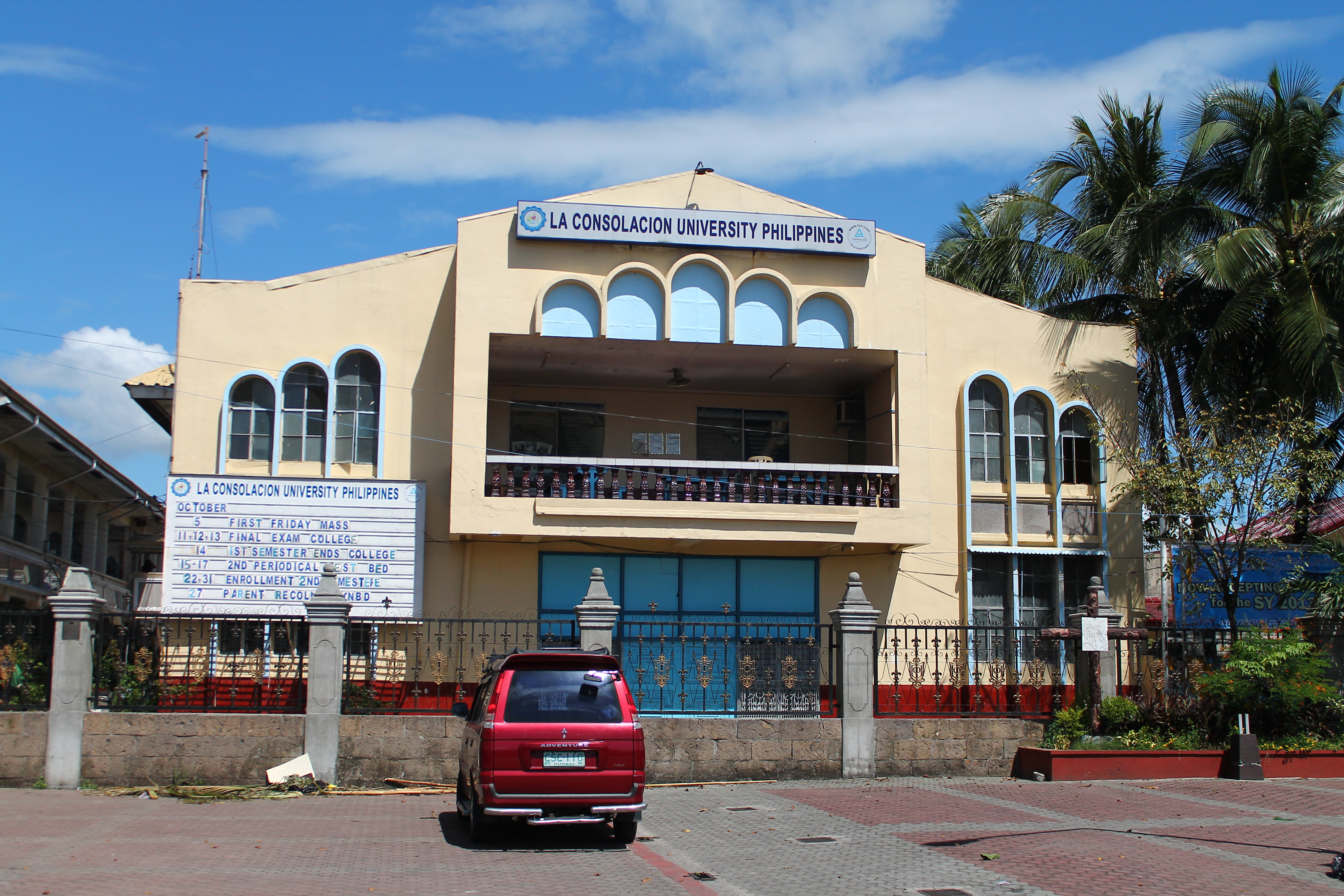 Former name is Regina Carmeli College in Bulacan.